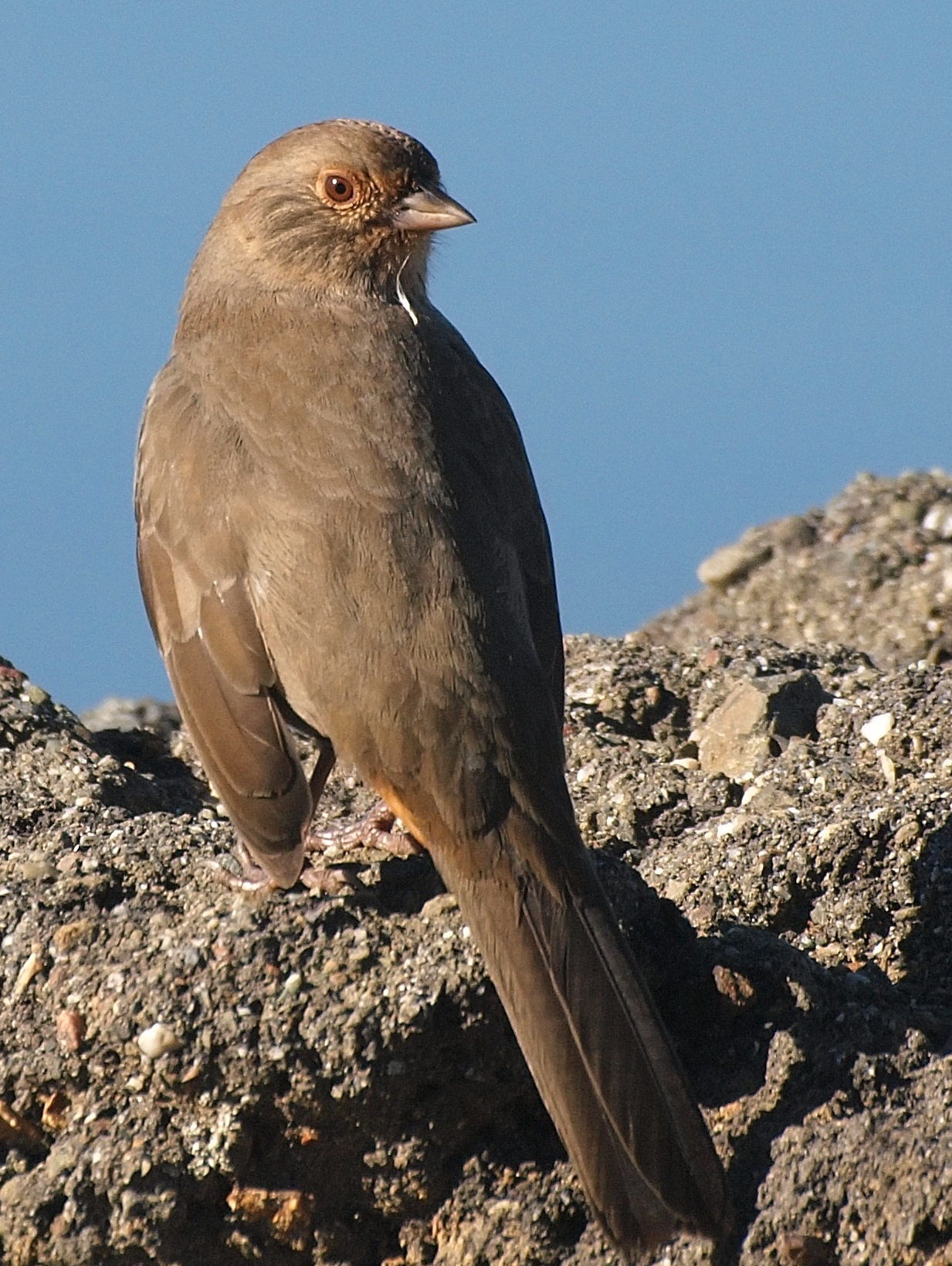 Pipilo crissalis California Towhee